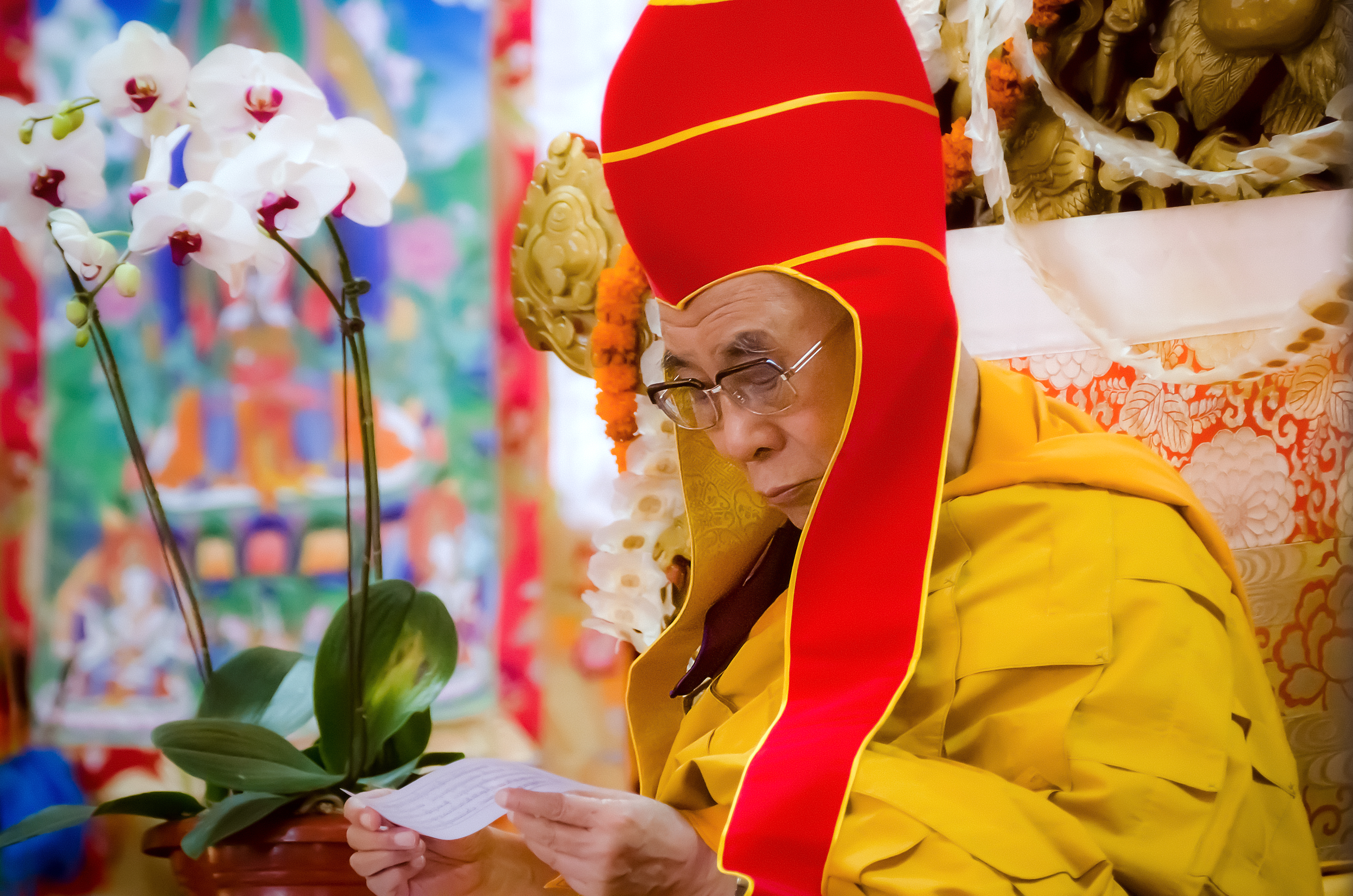 We have accepted the "phenomenon is more substantive than the real presence," this view, so we caught up in the troubles. H.H.14th Dalai Lama